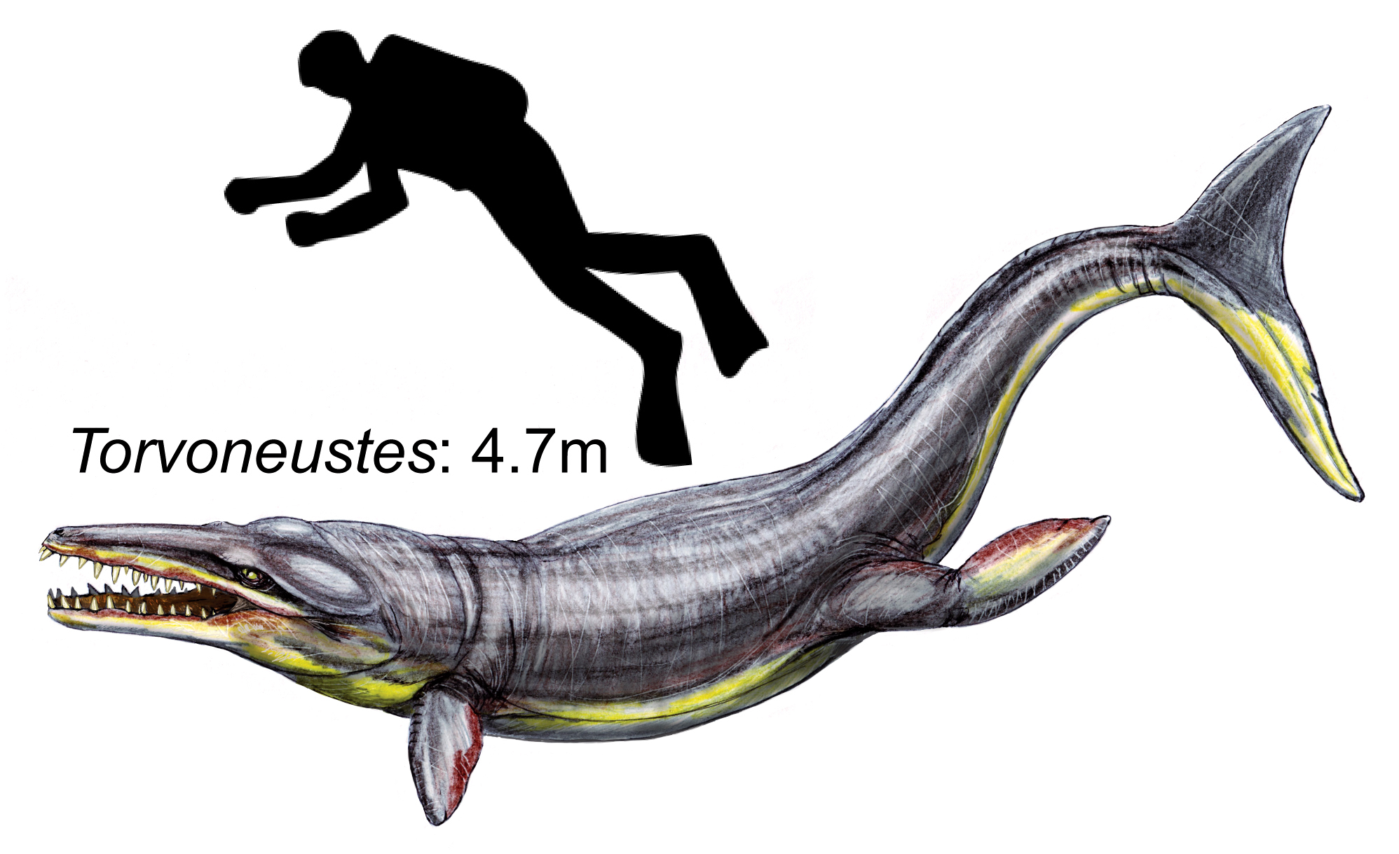 Life reconstruction showing the maximum body length for Torvoneustes carpenteri.